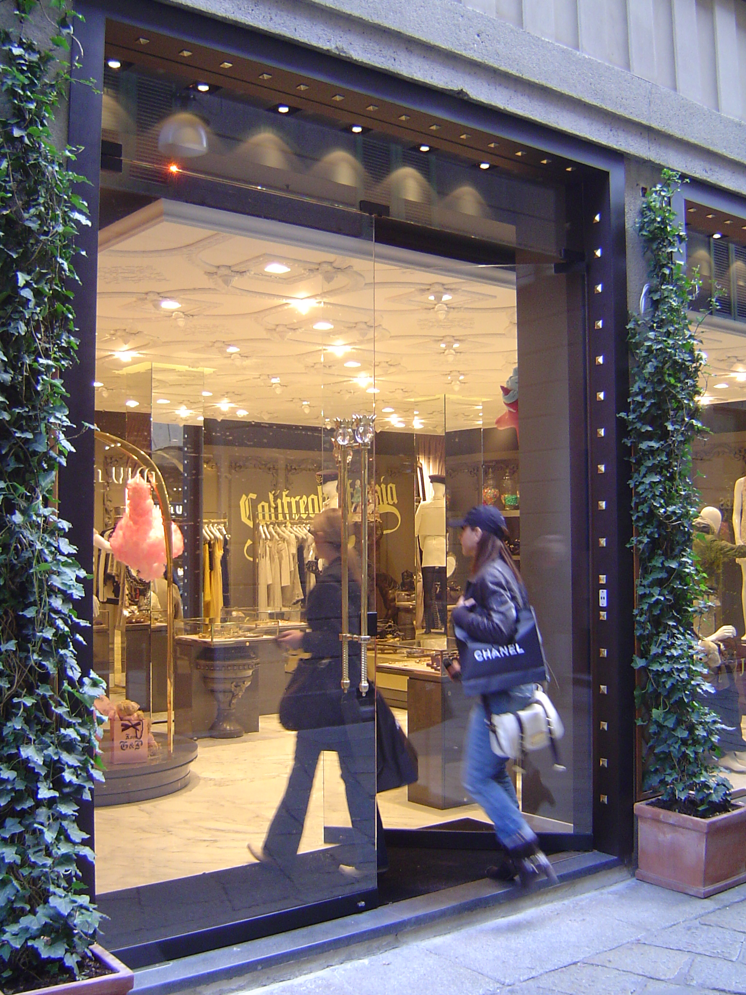 The Juicy Couture shop in Via della Spiga, Milan